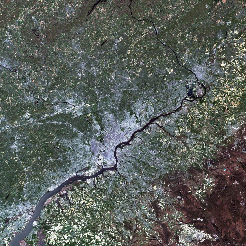 Large LANDSAT of Philadelphia, Pennsylvania, USA